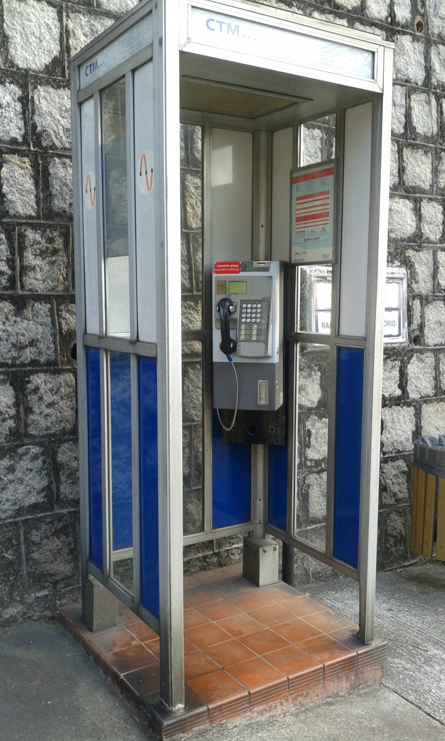 CTM Phone House